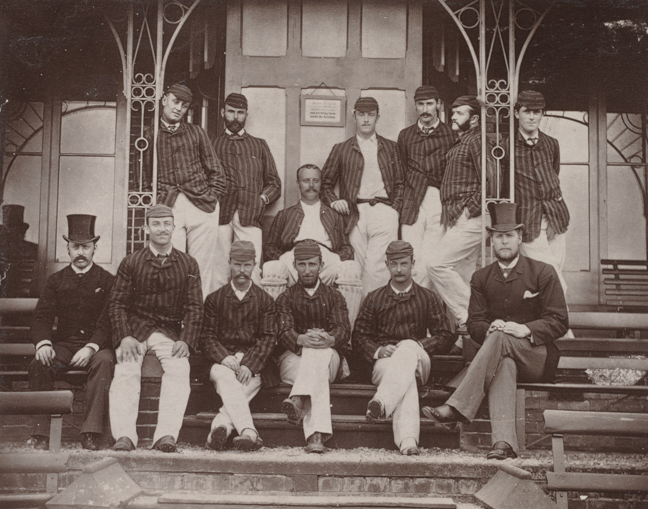 Format: Albumen photoprint Players: Back row, left to right - Eugene Palmer, Harry Boyle, William Murdoch (seated), Percy McDonnell, Fred Spofforth, Tom Horan, Samuel Jones. Front row, left to right - Mr Beal (manager), George Giffen, Alick Bannerman, Tom Garrett, Hugh Massie, G.J. Bonner (manager). Missing: John Blackham, George Bonnor. In 1882 the third Australian team to tour England won the test match at The Oval, London that established the Ashes legend. Find out more about our passion for cricket at Discover Collections - Cricket in Australia From the collections of the Mitchell Library, State Library of New South Wales Information about photographic collections of the State Library of New South Wales: .au/search/SimpleSearch.aspx Persistent url: .au/item/itemDetailPaged.aspx?itemID=447367